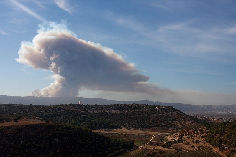 Fire on Mount Carmel on December 2, 2010, at its starting stages. Taken from kibbutz Harduf.